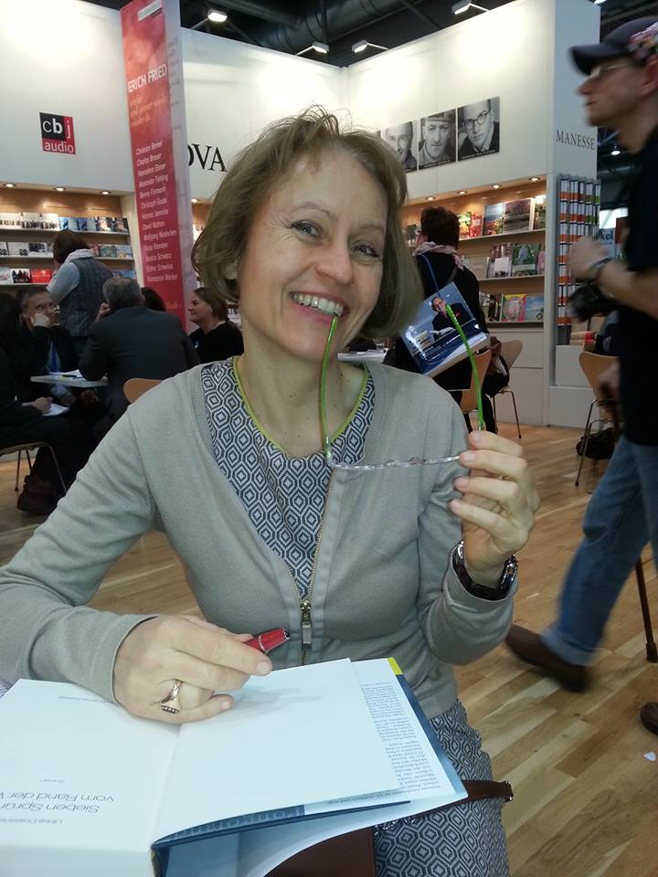 The captions shows the German writer Ulrike Draesner at the Leipzig Book Fair in March 2014